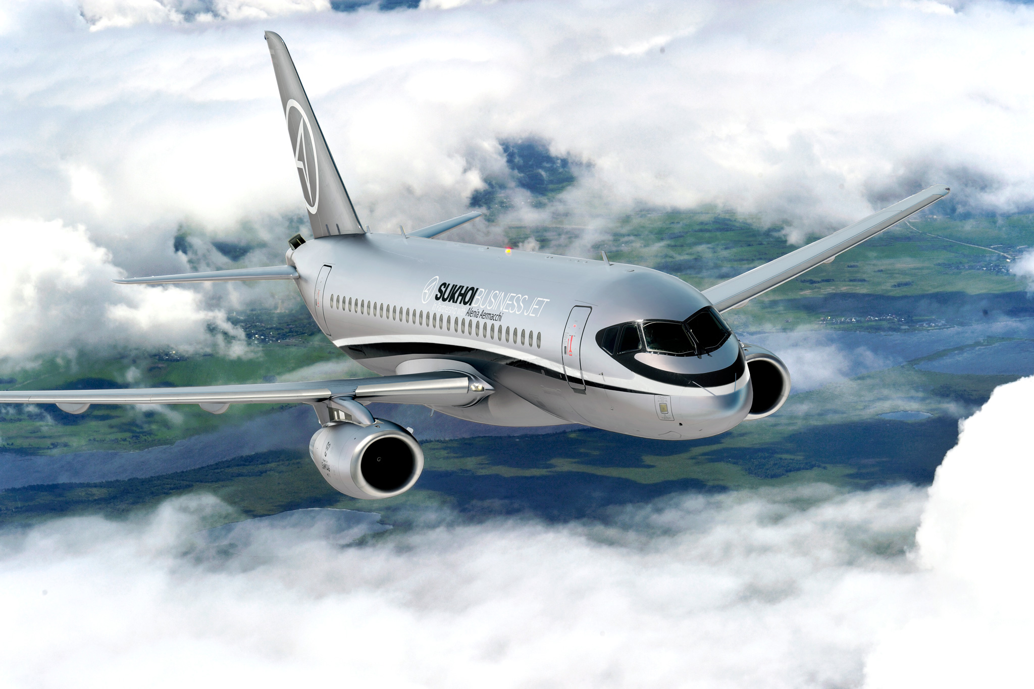 High achievers must have the freedom to travel anywhere in the world, often at short notice. They must have the facilities they need, as well as the comfort they want, wherever they go. They need that freedom and those facilities to be eco‑friendly too.